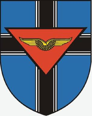 Internal coat of arms of the Bundeswehr (Armed Forces of the Federal Republic of Germany). → Remarks on naming and categorization scheme Wappen des Luftwaffenausbildungskommandos (Bundeswehr)